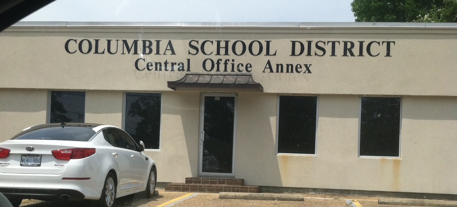 Columbia School District office annex - 613 Bryan Avenue Columbia, MS 39429